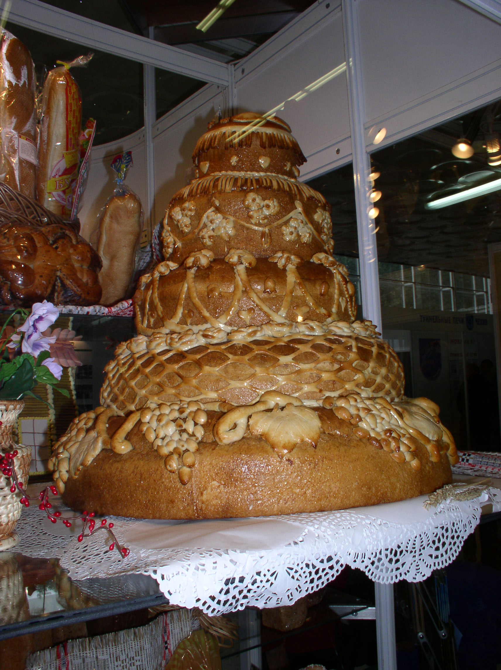 "Bread and confectionery business" exhibition. Minsk, Belarus.